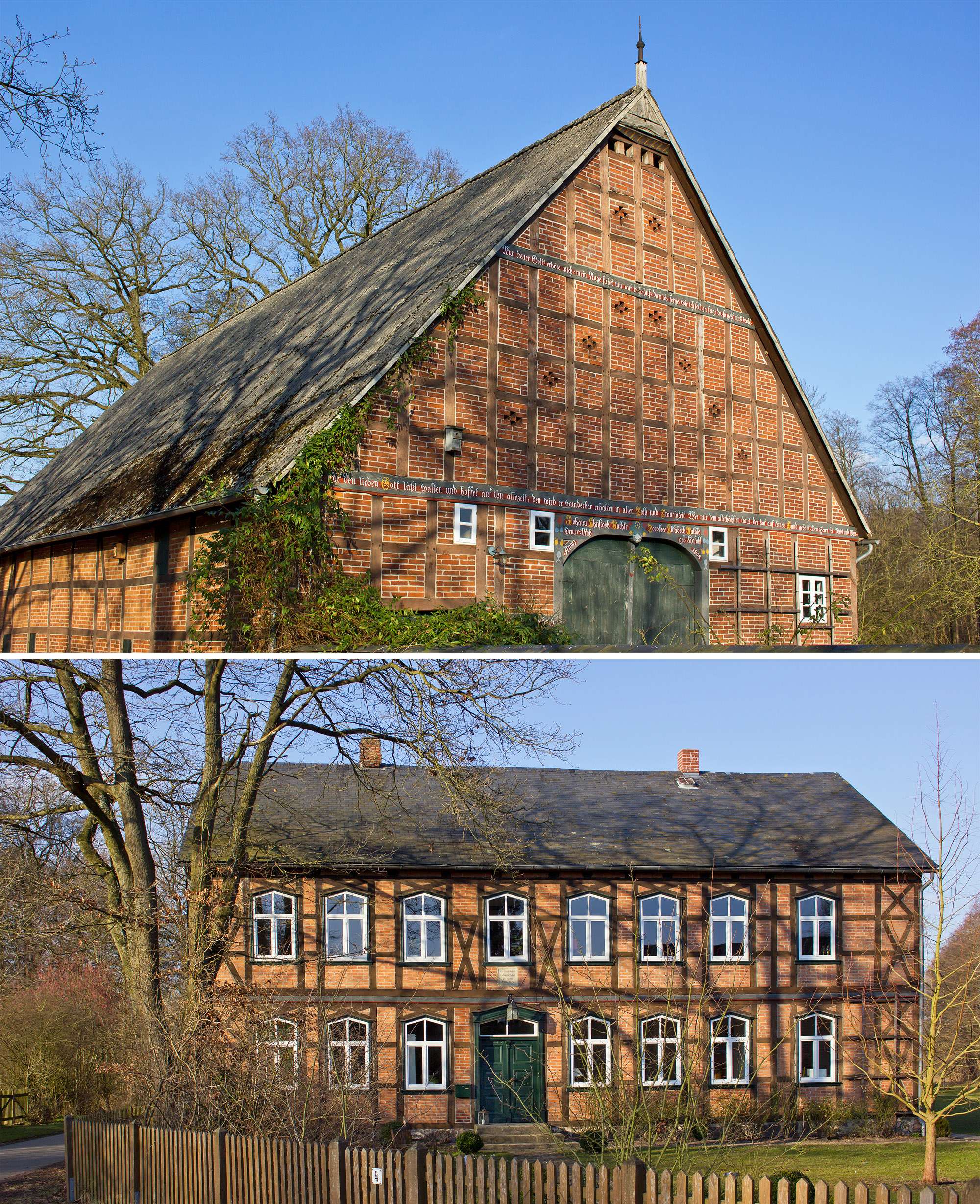 Cultural heritage monument "No 4" in the small village Klein Sachau near Clenze (district Lüchow-Dannenberg, northern Germany); built in 1858 resp. 1894 (residential building below).